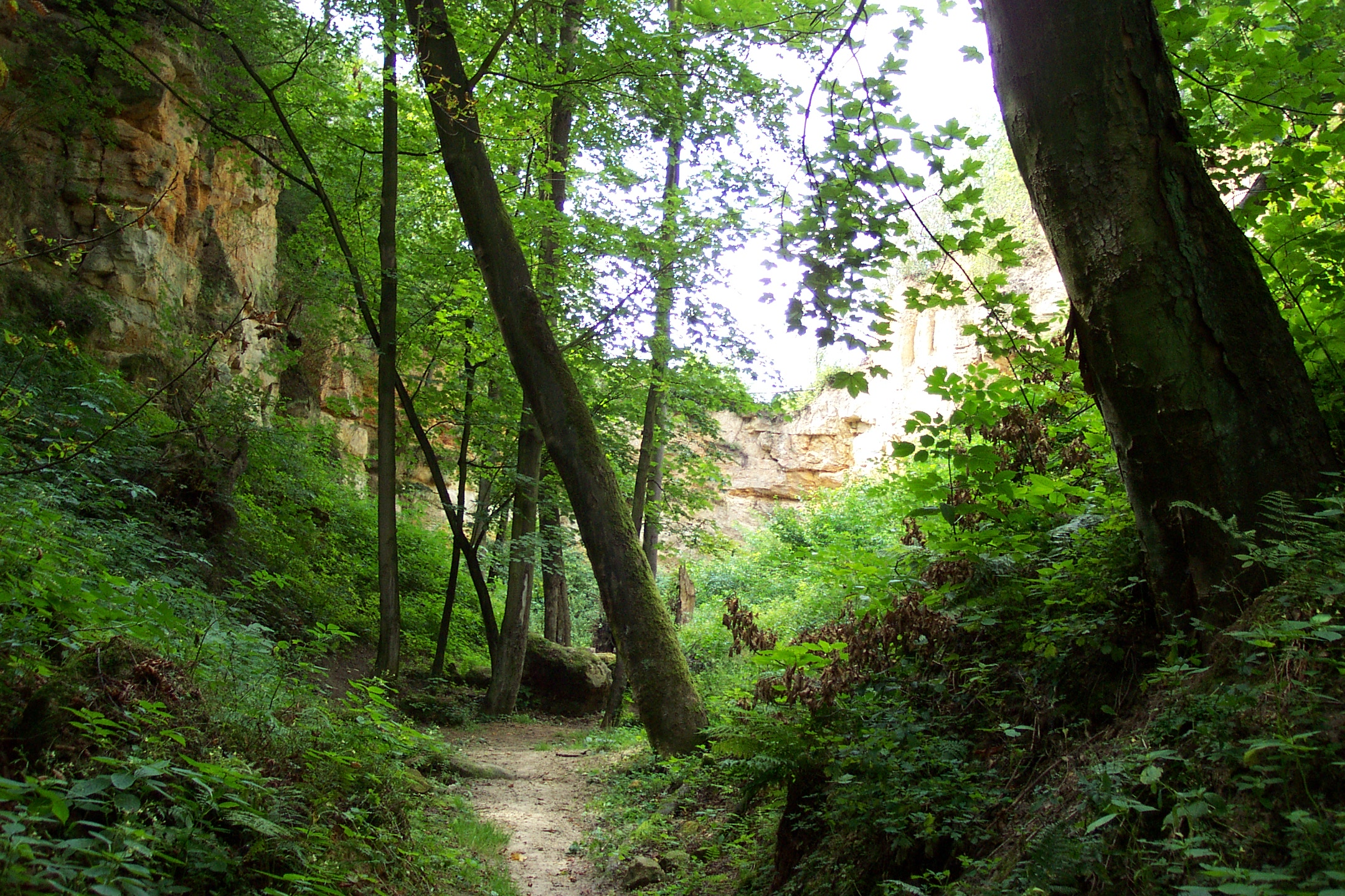 Prague-Lysolaje, the Housle natural reservation